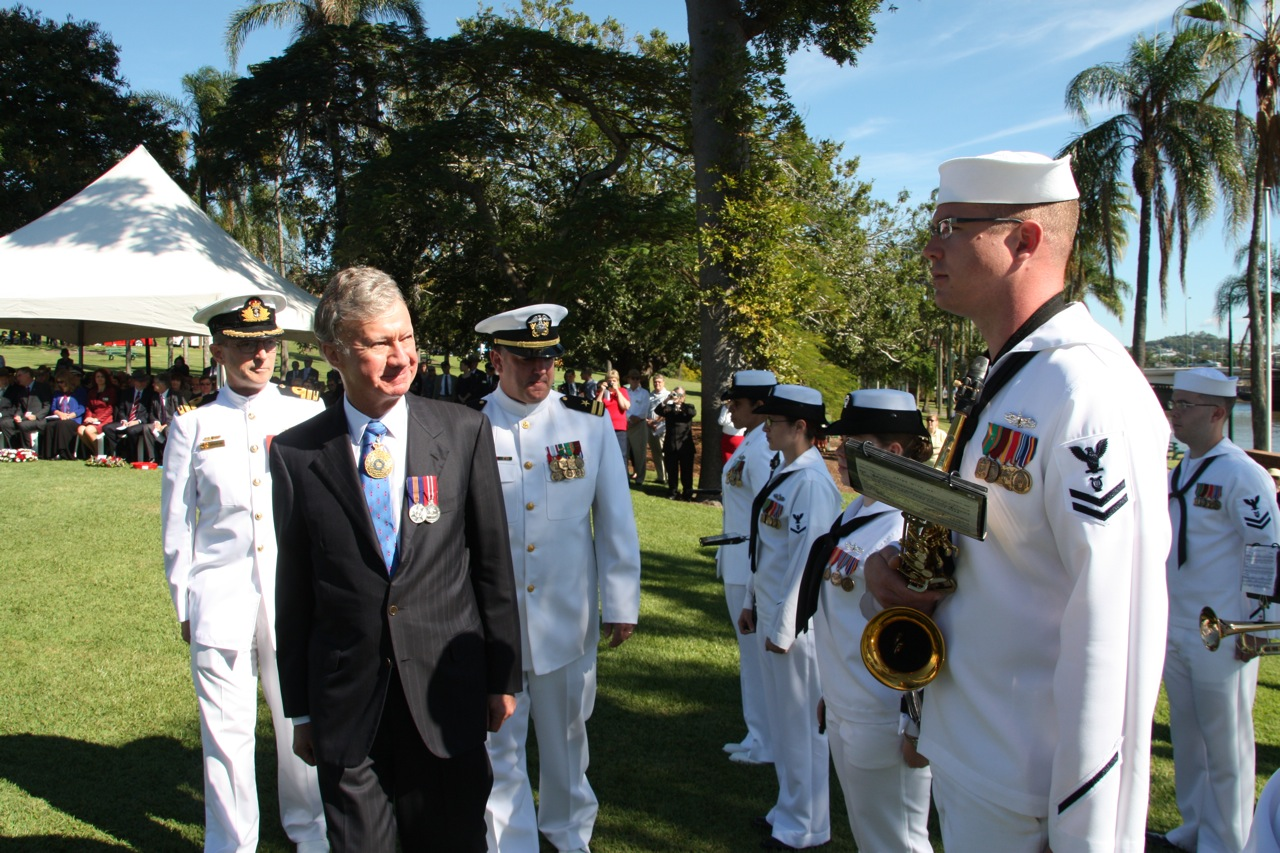 BRISBANE, Australia (May 7, 2011) Members of the U.S. 7th Fleet Band are inspected by acting Governor and Chief Justice of Queensland the Honorable Paul de Jersey, AC, in a Coral Sea Memorial Service at Newstead Park. The band is in Australia to commemorate the 69th anniversary of the Battle of the Coral Sea and to share music with the community in the wake of the recent floods. (U.S. Navy photo by Musician 3rd Class Amanda Ginn/Released)